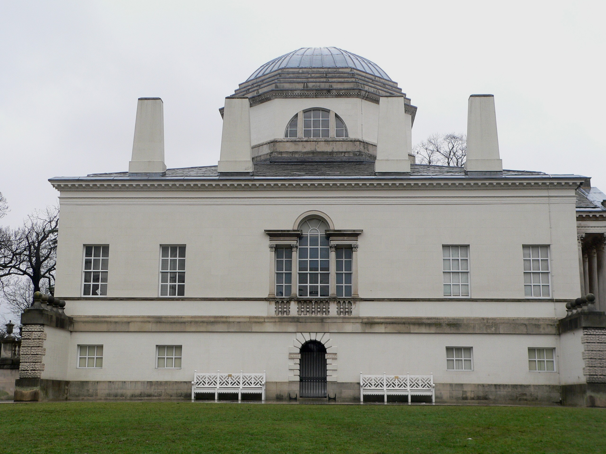 South West view of the facade of the Villa showing a Serlian window with its Diocletian design source above and the unusual use of obelisk chimneys to give the Villa a sense of the ancient